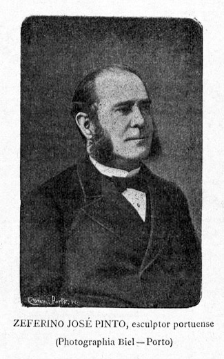 Zeferino José Pinto, Portuguese sculptor (second half of the 19th century).